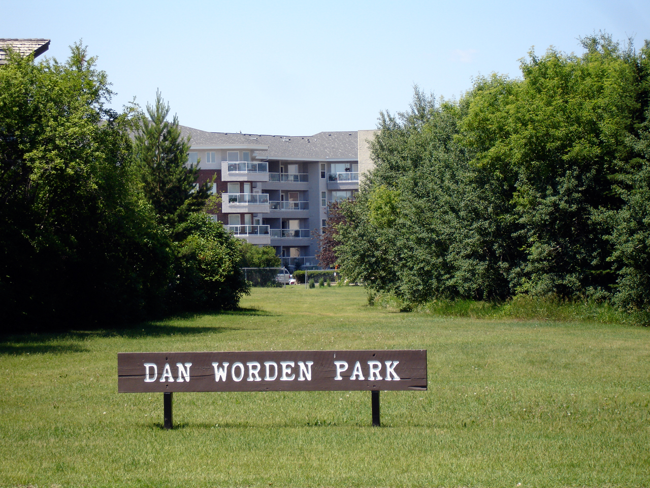 Dan Worden Park in the Nutana Suburban Centre neighbourhood of Saskatoon, Saskatchewan, Canada.